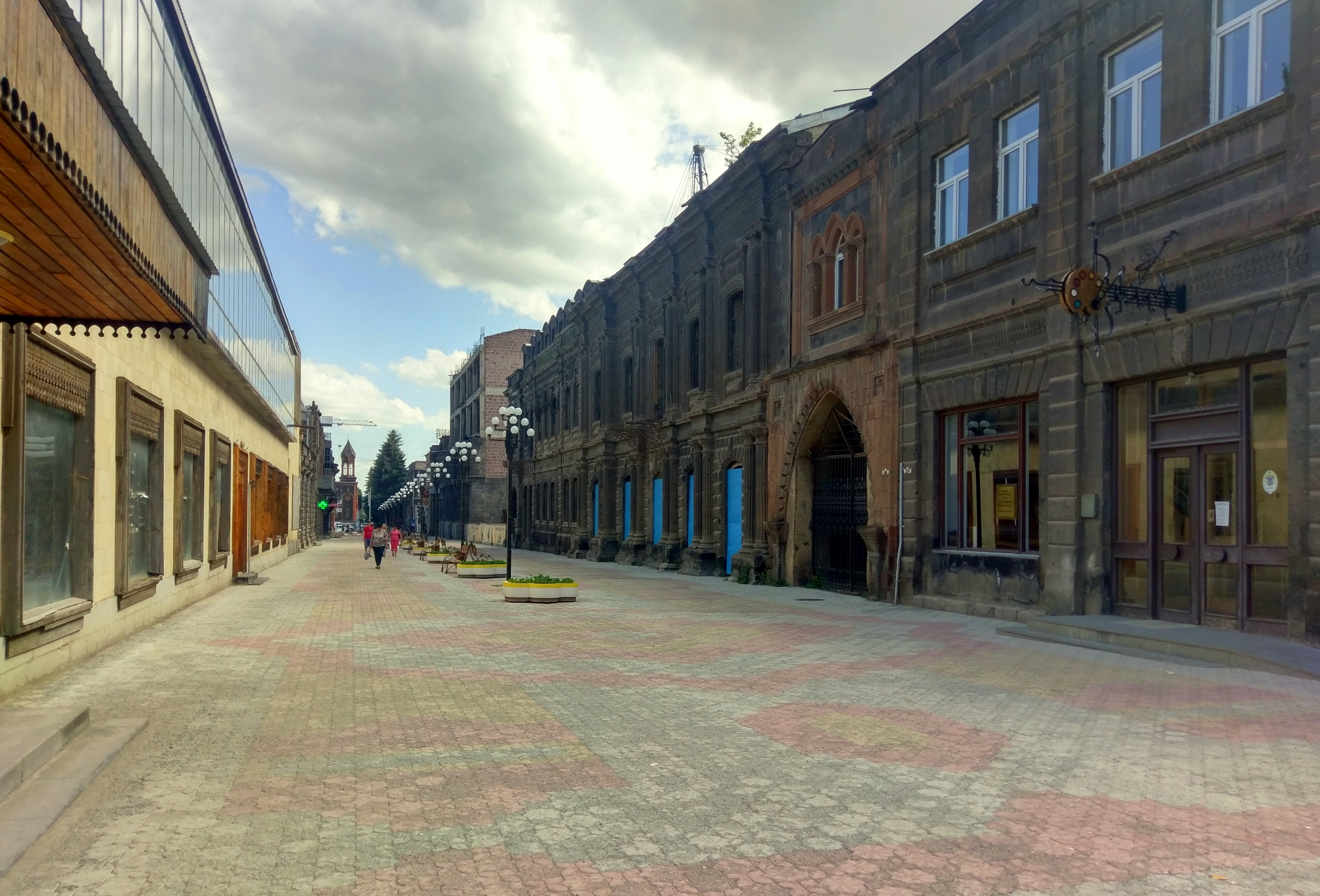 Abovyan Avenue, former Alexandrovsky Street in the Kumayri Historic District, Gyumri, Armenia.